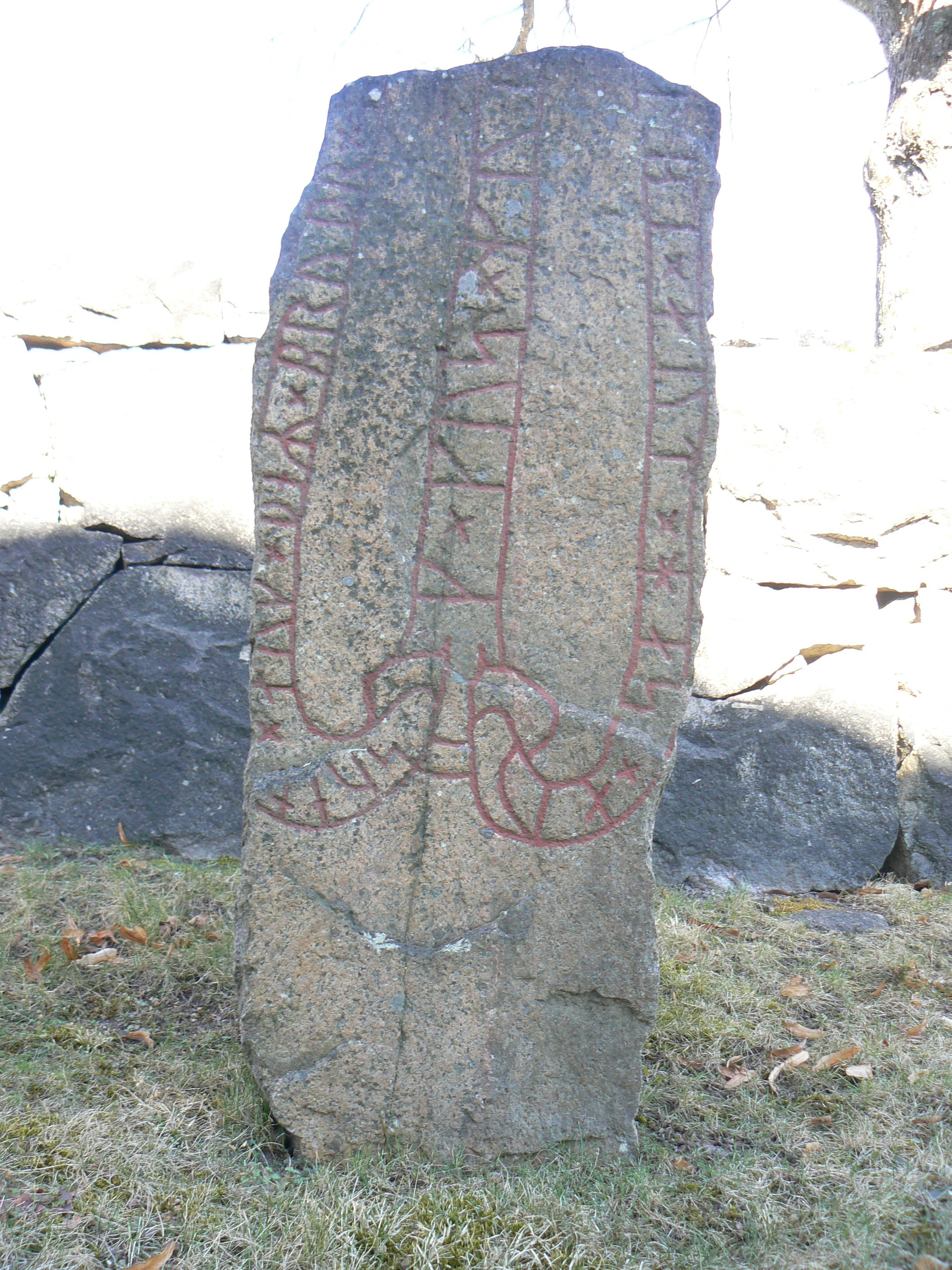 Östergötlands runinskrifter 161, runestone at Kimstad church in Östergötland, Sweden.